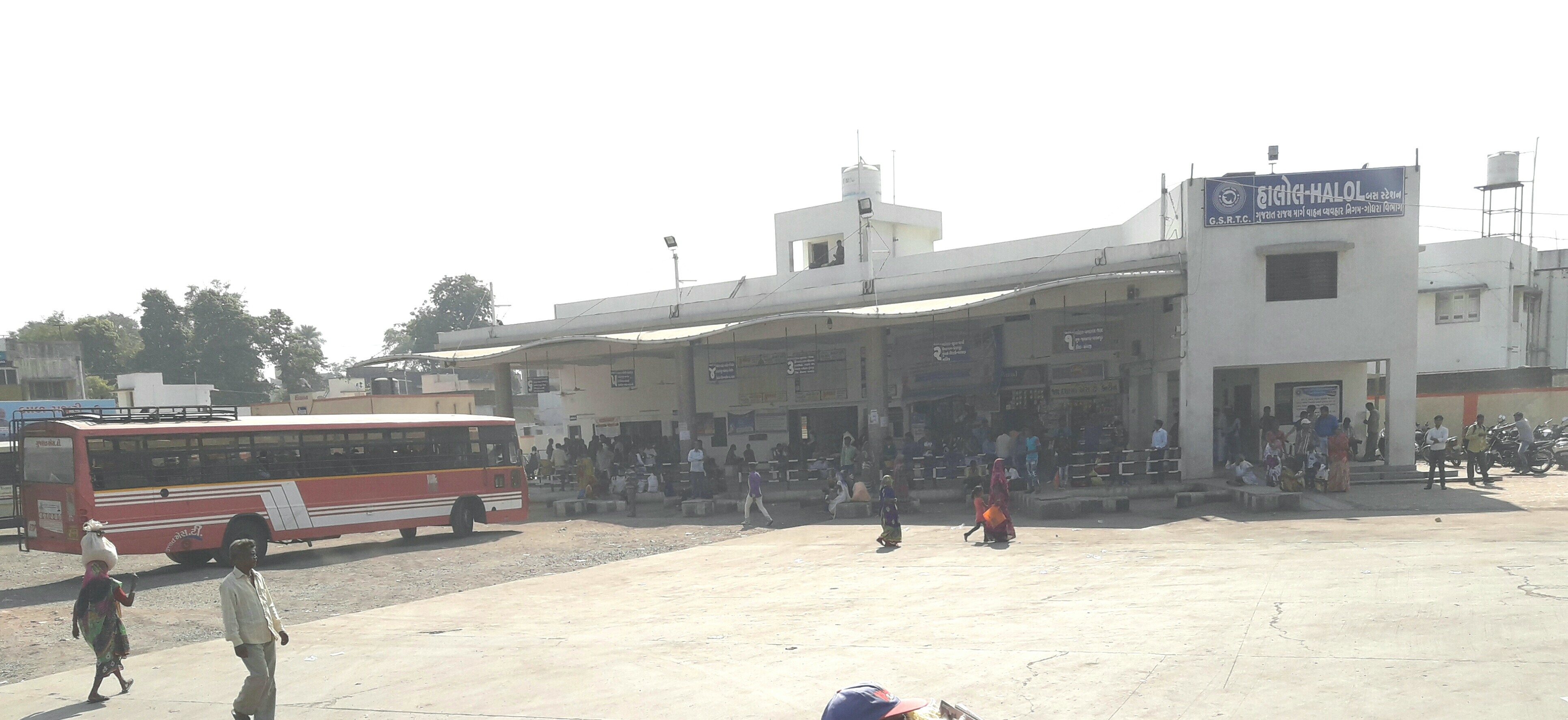 GSRTC Bus Depo, Halol, Gujarat, India